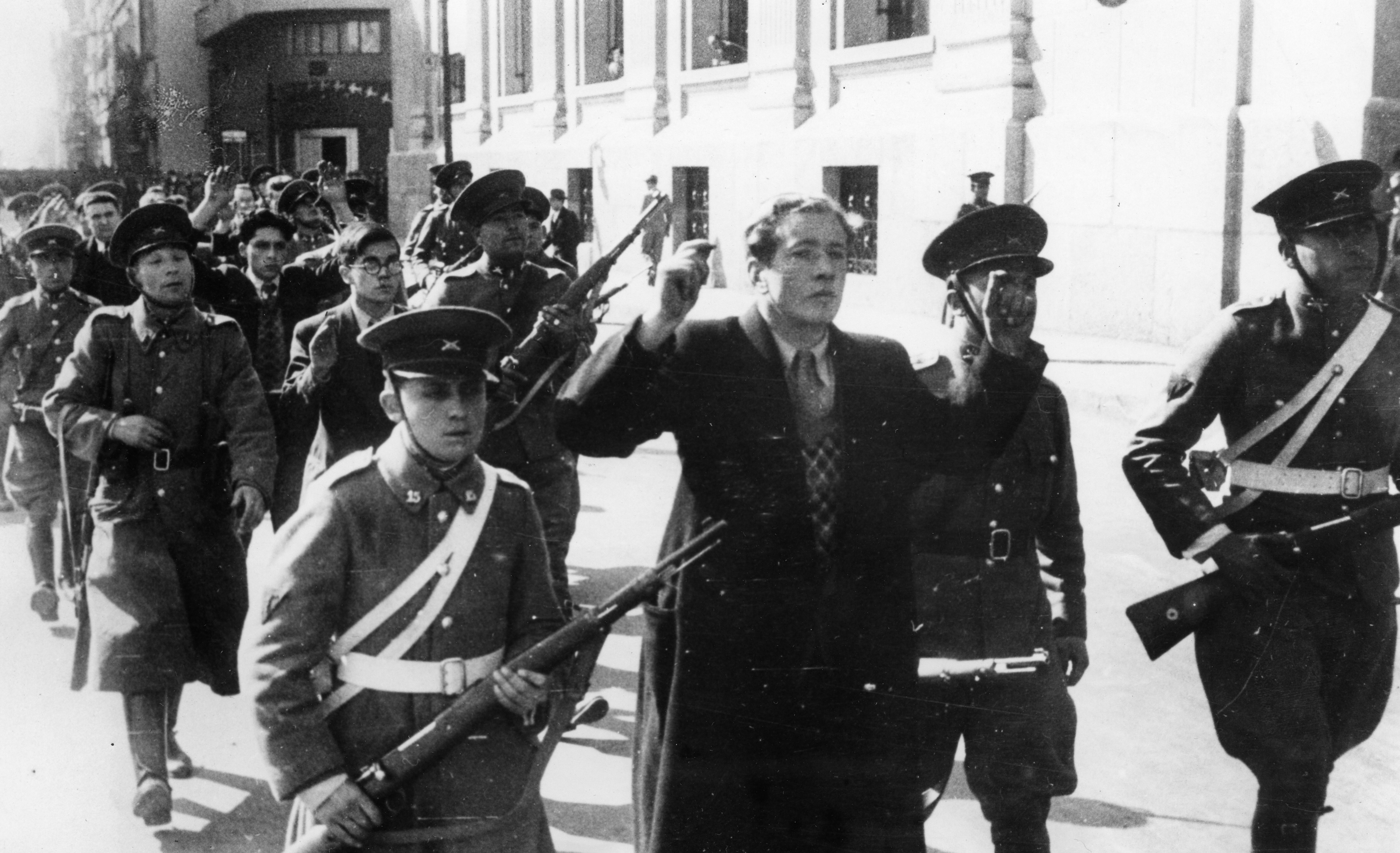 697241 As Nazi Insurrection was quelled in Chile. Santiago, Chile. -Federal police escort members of the Nazi party who surrendered during four hours of fighting here Sept. 5, when a Fascist uprising was attempted without success. The death toll was put at 87. H 9/12/38 (s) Revolte Nazi au Chile. Santiago. Voici des Police ... des members du parti Nazi qui se sont rendu apres avoir tente une revolte pour prendre le poivoir.Il a ue 87 morts. JGL